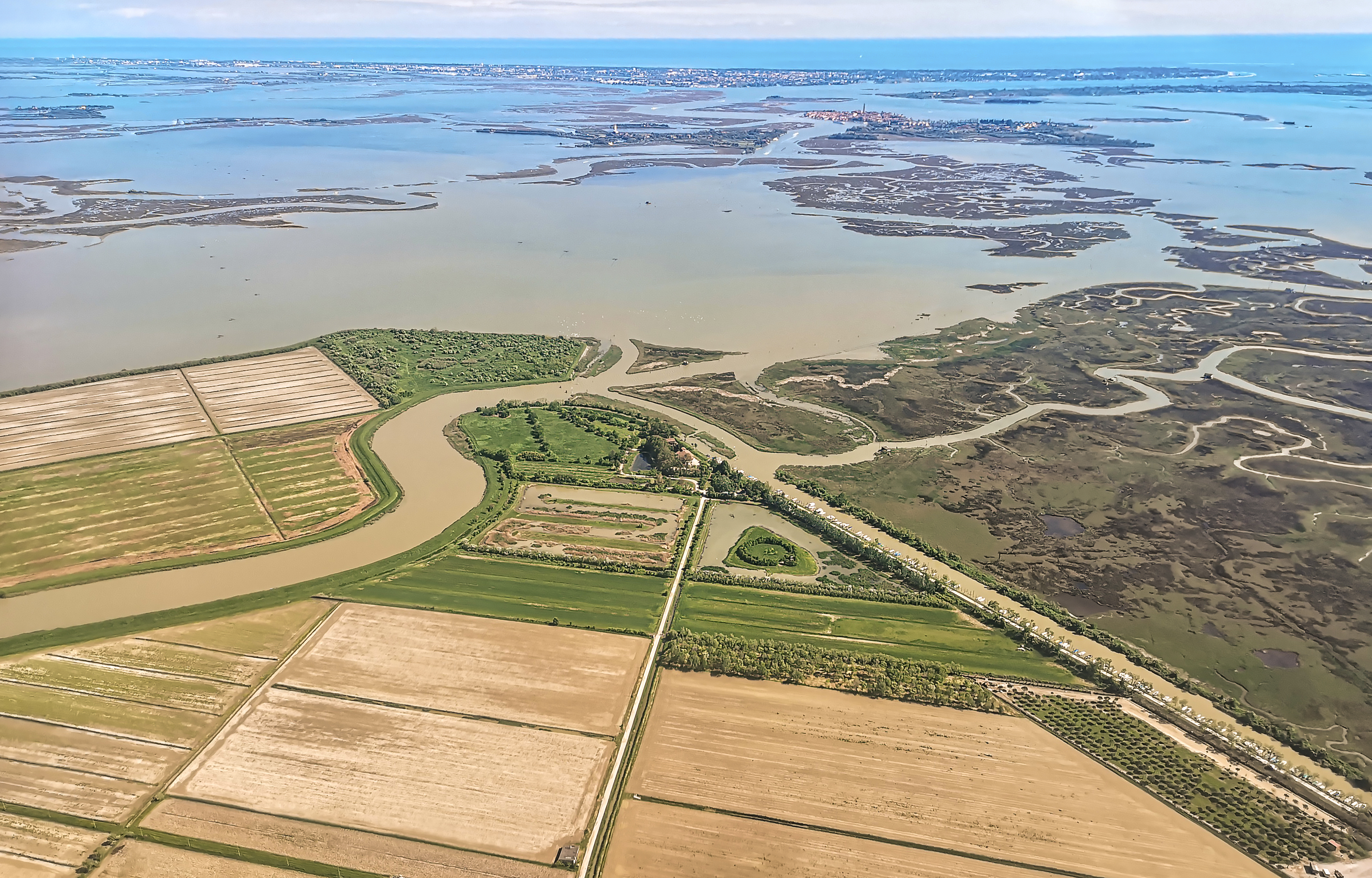 The end of the river Dese in the Lagoon of Venice. Burano, Torcello and little islands in the North-East of Torcello with meanders of the former river mouths - the river Sile had ended here in former times in an estuary, today called Canale Silone in the section from Portegrandi to Torcello. In the right of the photo saltmarsh Palude Pagliaga. Parts of island Santa Christina are in the left upper corner of the photo (View the annotations in the photo above with cursor).